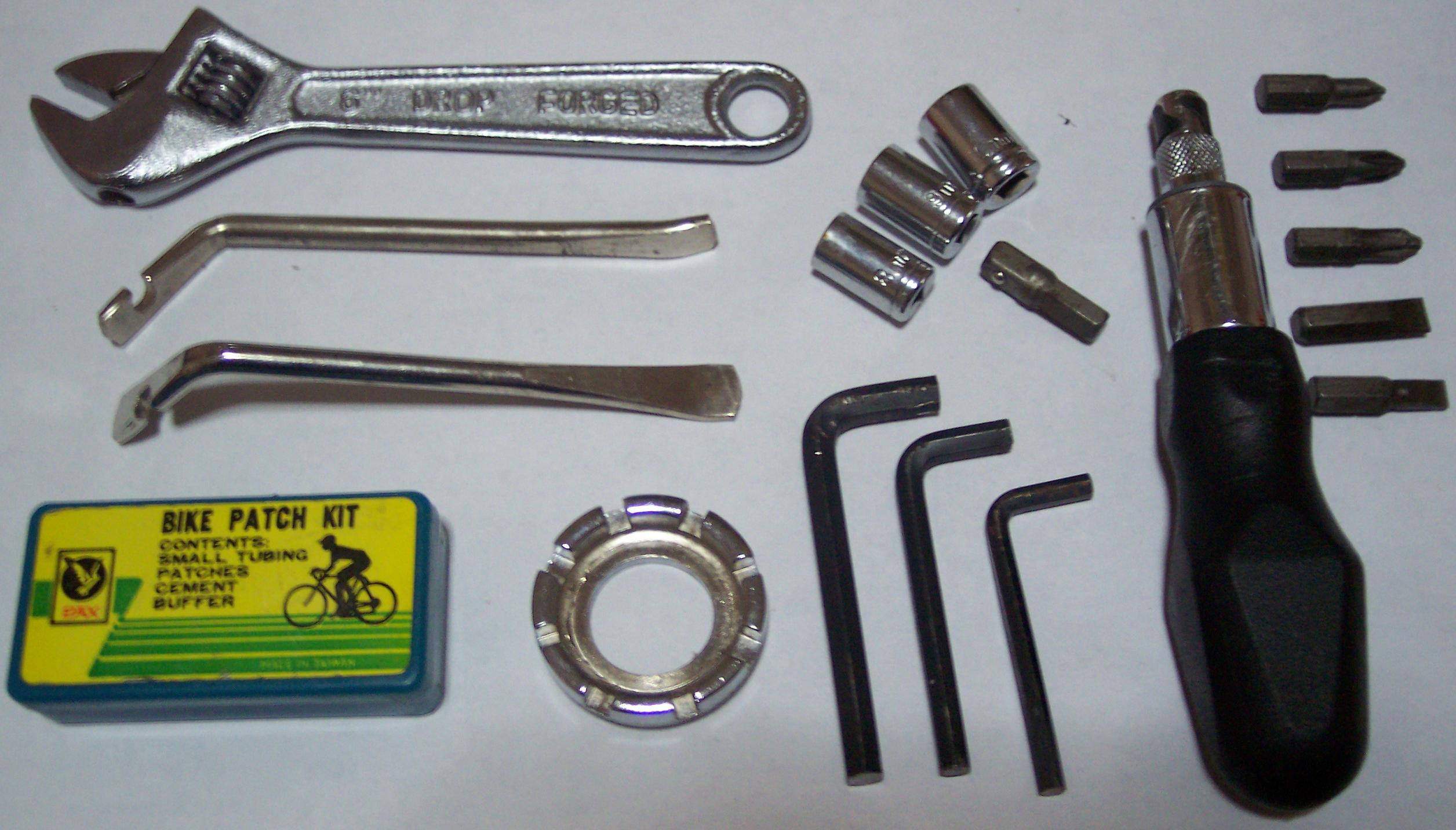 Bicycle repair tools See also Image:BicycleRepairToolsNumbered.JPG with description numbers